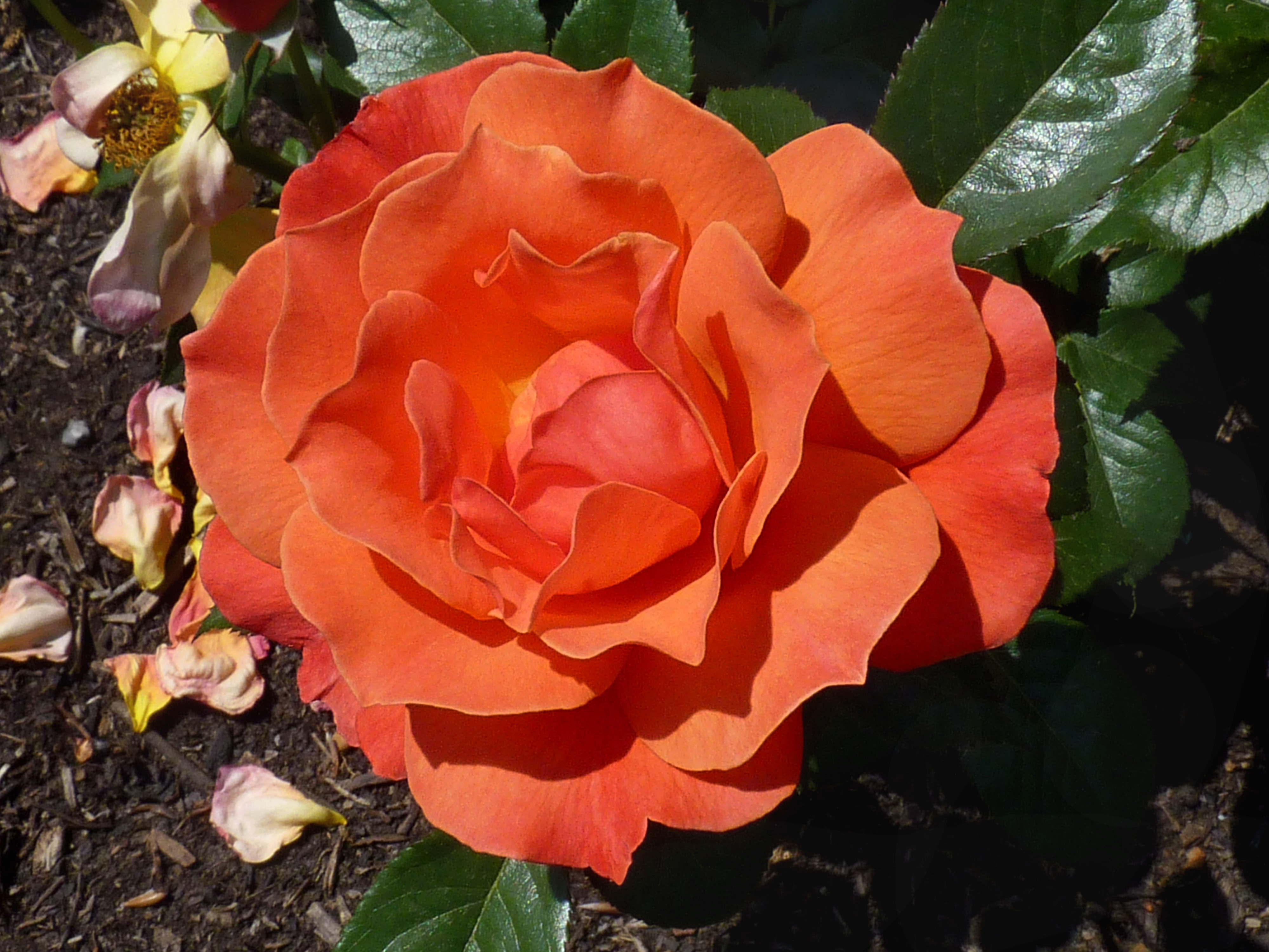 Rosa 'Fellowship' (Harkness, 1992), in the international rose garden of Kortrijk, Belgium.